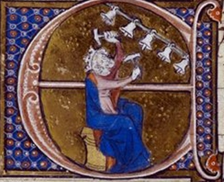 Queen Mary Psalter BL, King David plays the bells